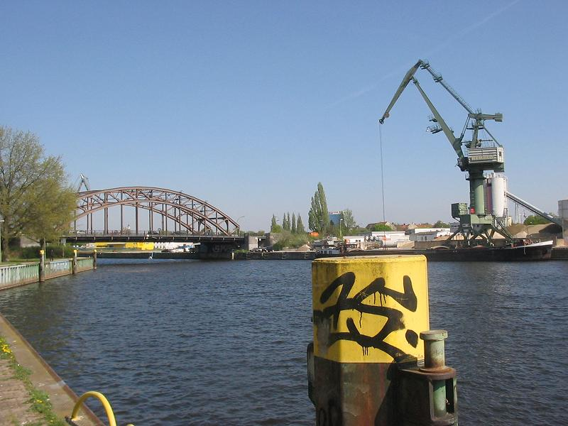 The Südhafen Spandau (south harbour Spandau) is an inland harbour at the river Havel in Tiefwerder in Spandau (Borough Spandau), Germany.